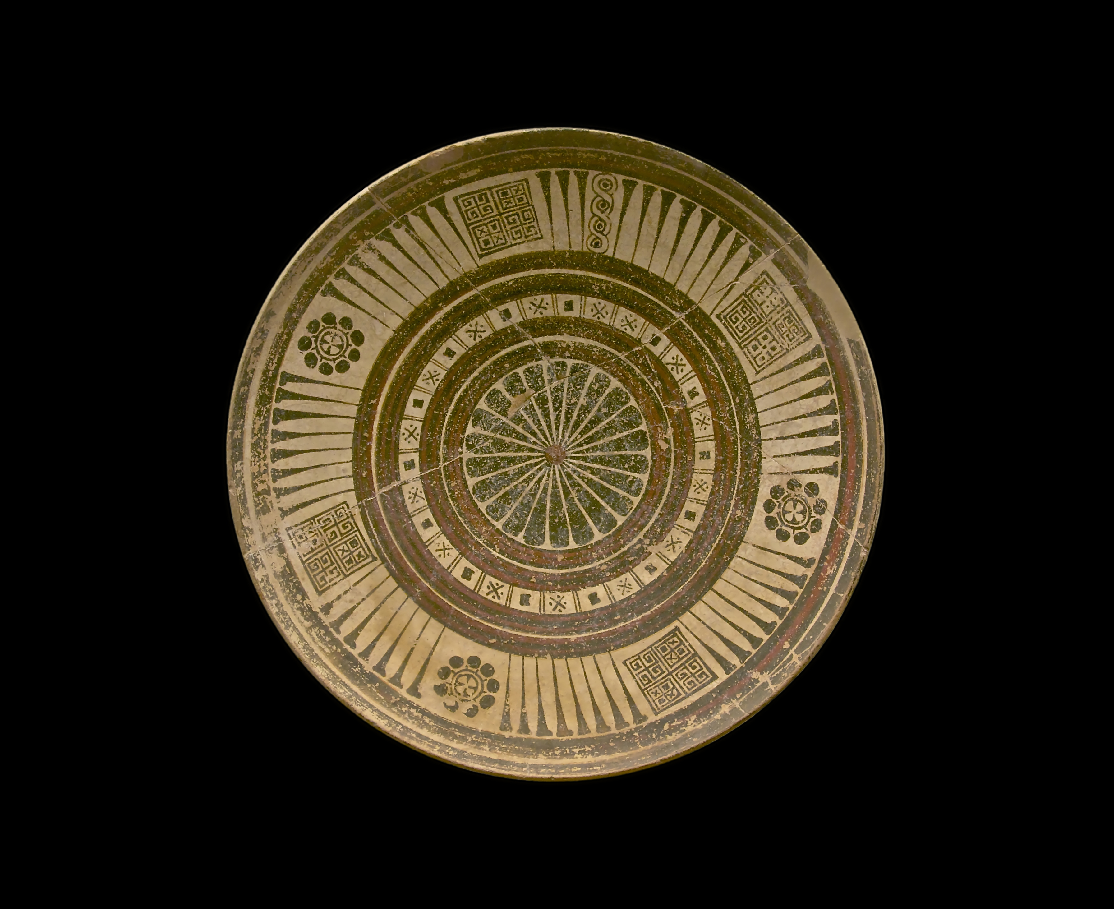 an ancient greek rhodian plate. "Wild goat" style.